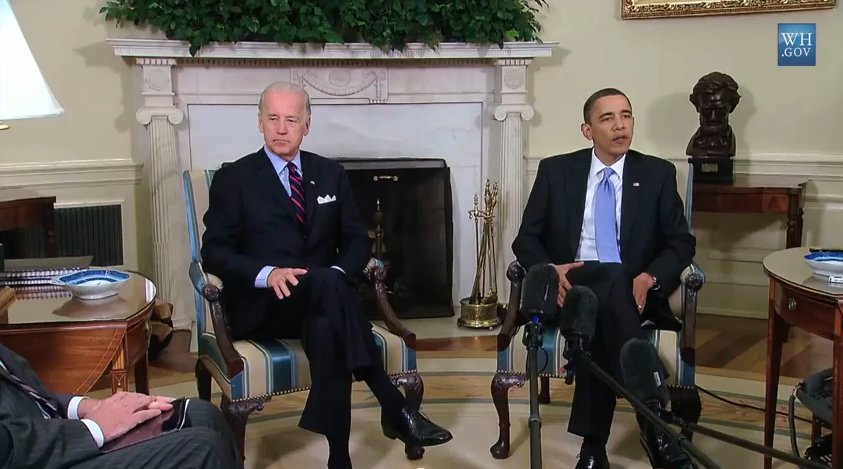 President Obama and Vice-President Joe Biden discussing Supreme Court nominations from West Wing Week episode 04 Competing the Old-Fashioned Way